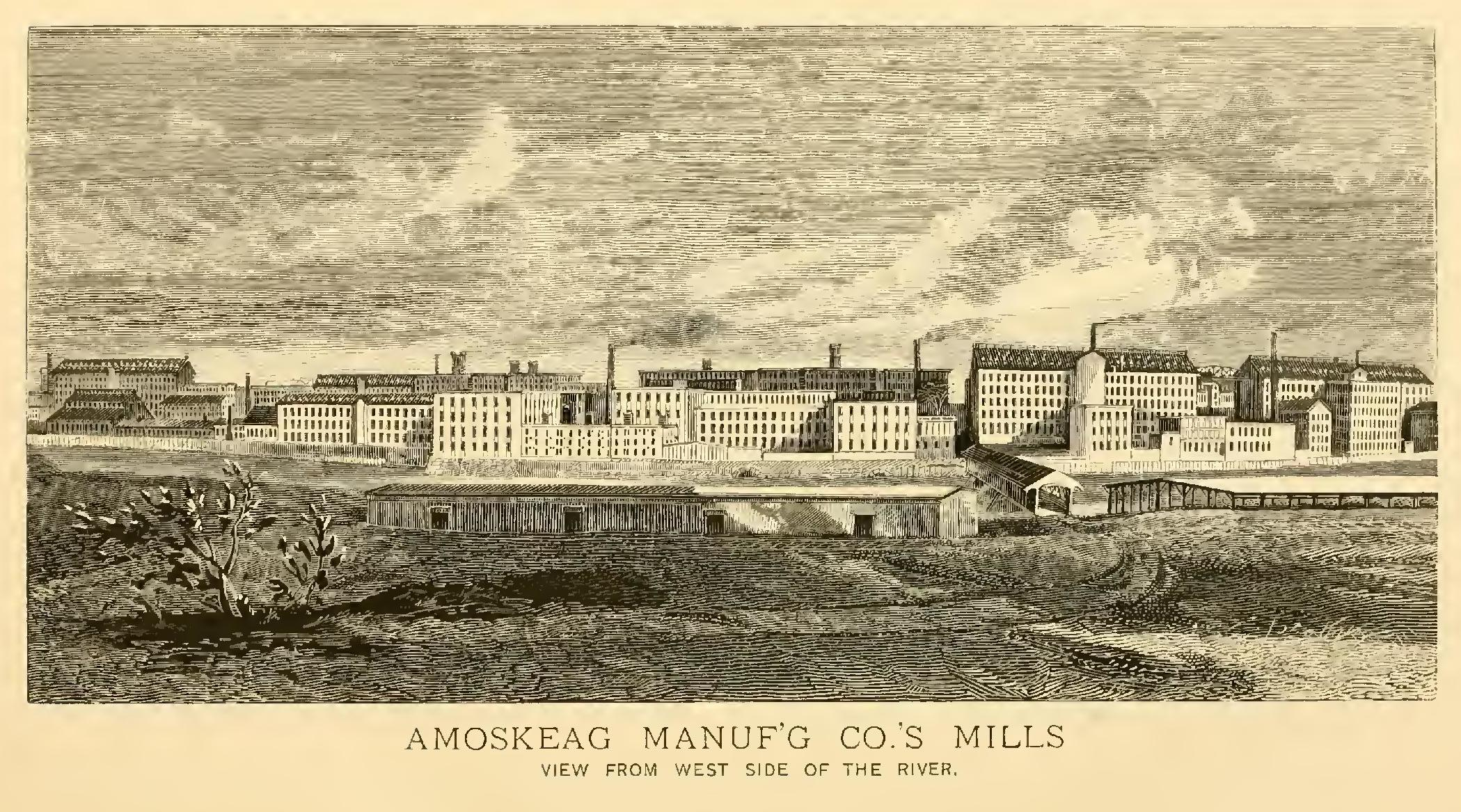 Amoskeag Manufactoring Co.'s Mills